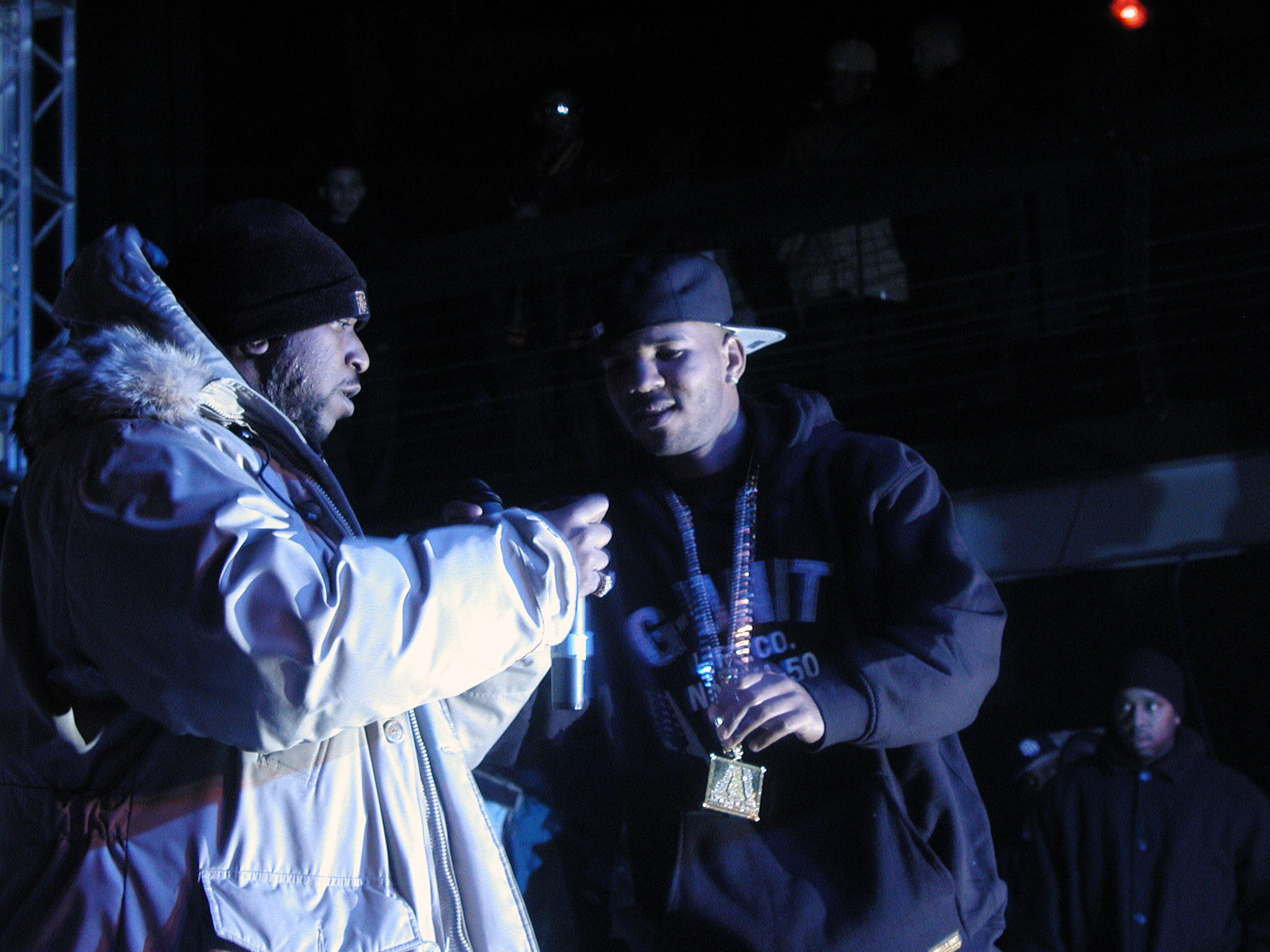 Kool G Rap and The Game in 2006.cool G rap & the game